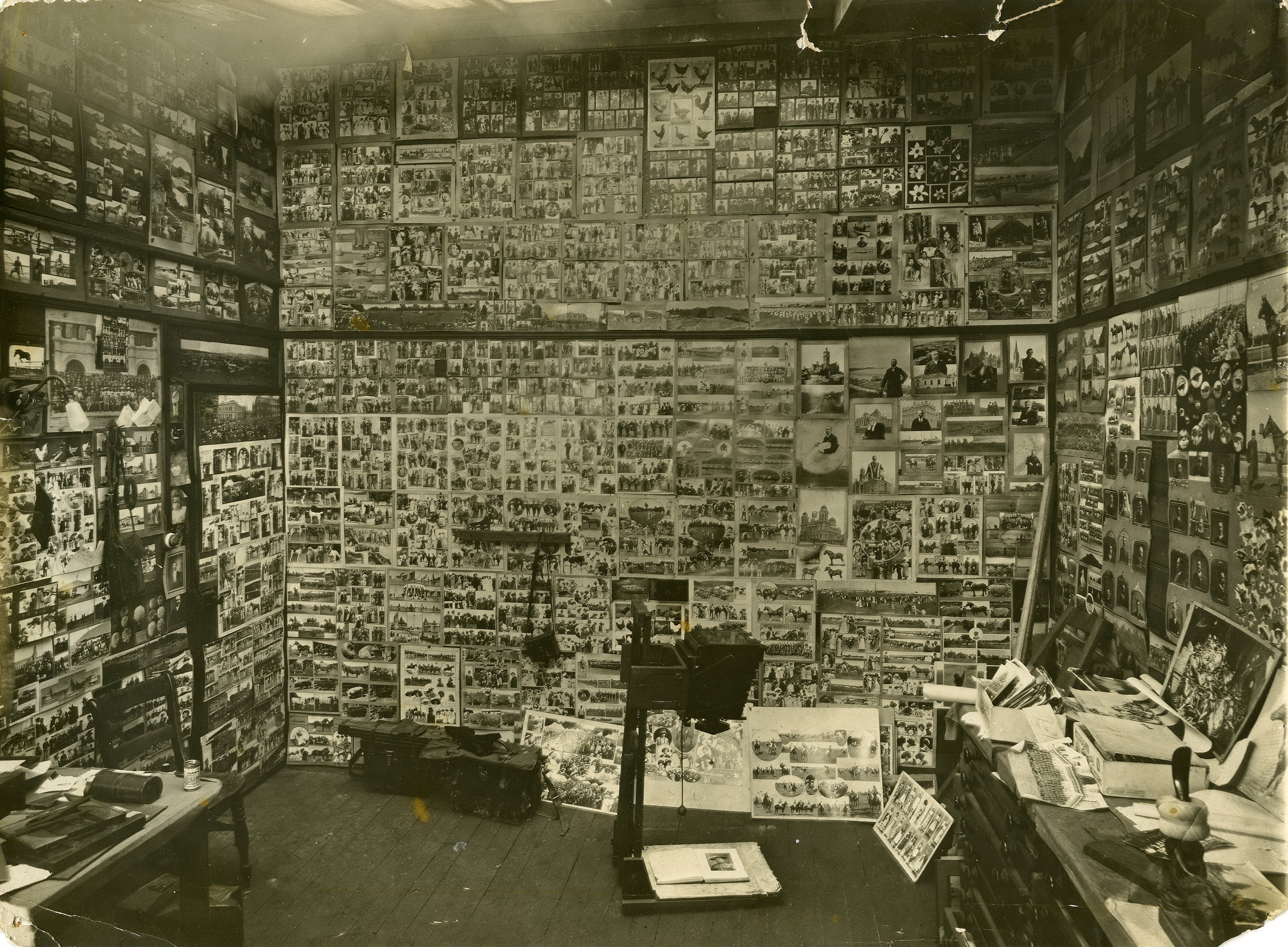 Leslie Hinge’s photography studio, Christchurch. Archives reference: ACCT 8031 W4031 Box 5/25 For more information use our “ask an archivist” link on our website: For updates on our On This Day series and news from Archives New Zealand, follow us on Twitter Material from Archives New Zealand Te Rua Mahara o te Kāwanatanga